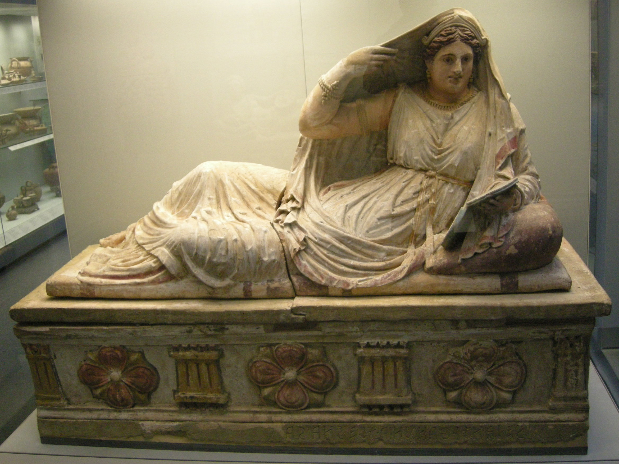 The dead woman, her name inscribed on the base of her chest, was clearly a well-to-do lady. She reclines upon a mattress and pillow, holding an open-lidded mirror in her left hand and raising her right hand to adjust her mantle. She wears a tunic (chiton) with high girdle and a bordered cloa, and her jewellery comprises a tiara, earrings, necklace, bracelets and finger-rings. The skeleton from the sarcophagus was found to belong to a woman who was about fifty years old at the time of her death.